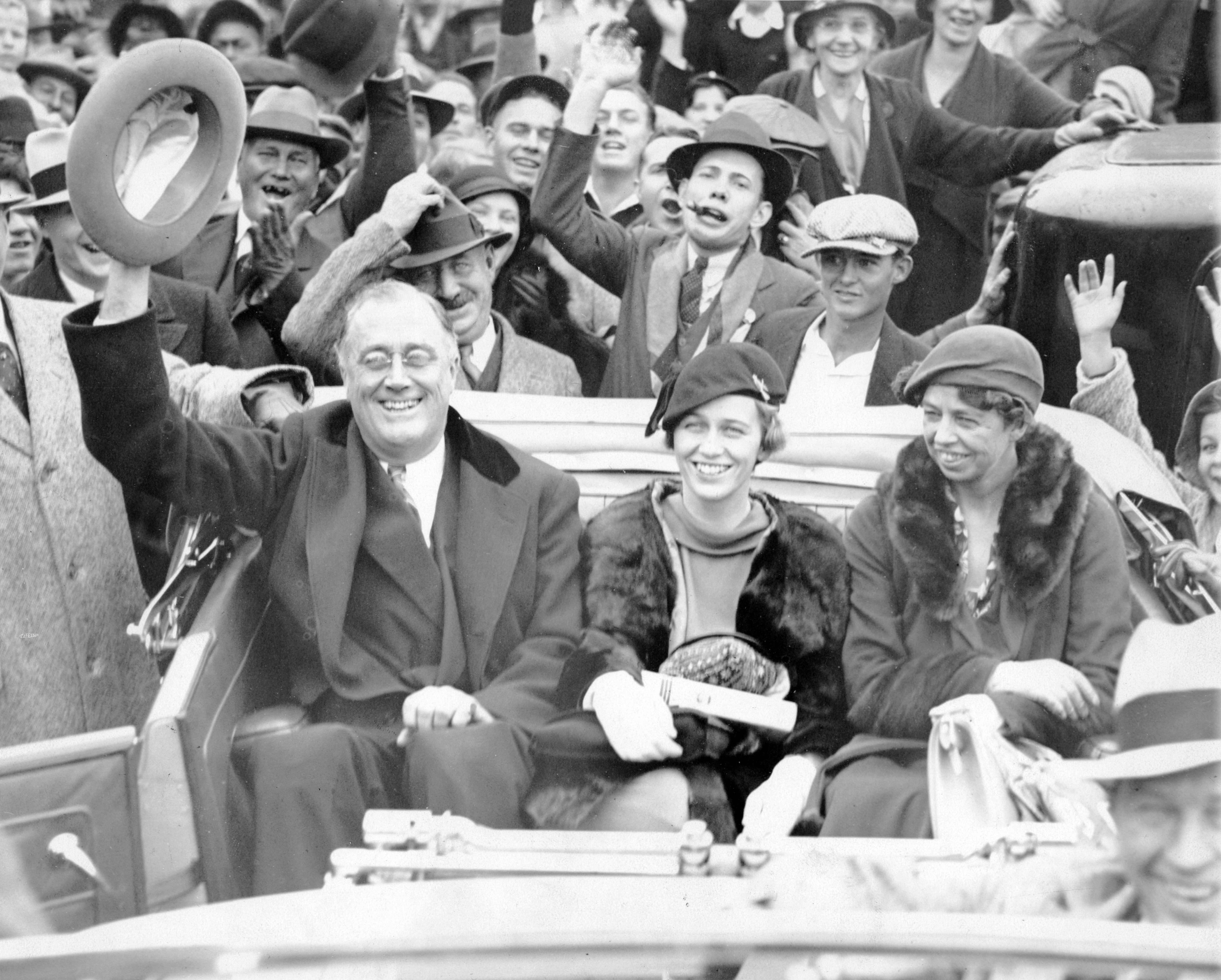 FDR with Anna Roosevelt Halsted and Eleanor Roosevelt during campaign at Warm Springs, Georgia enroute from his cottage to the station. October 24, 1932.